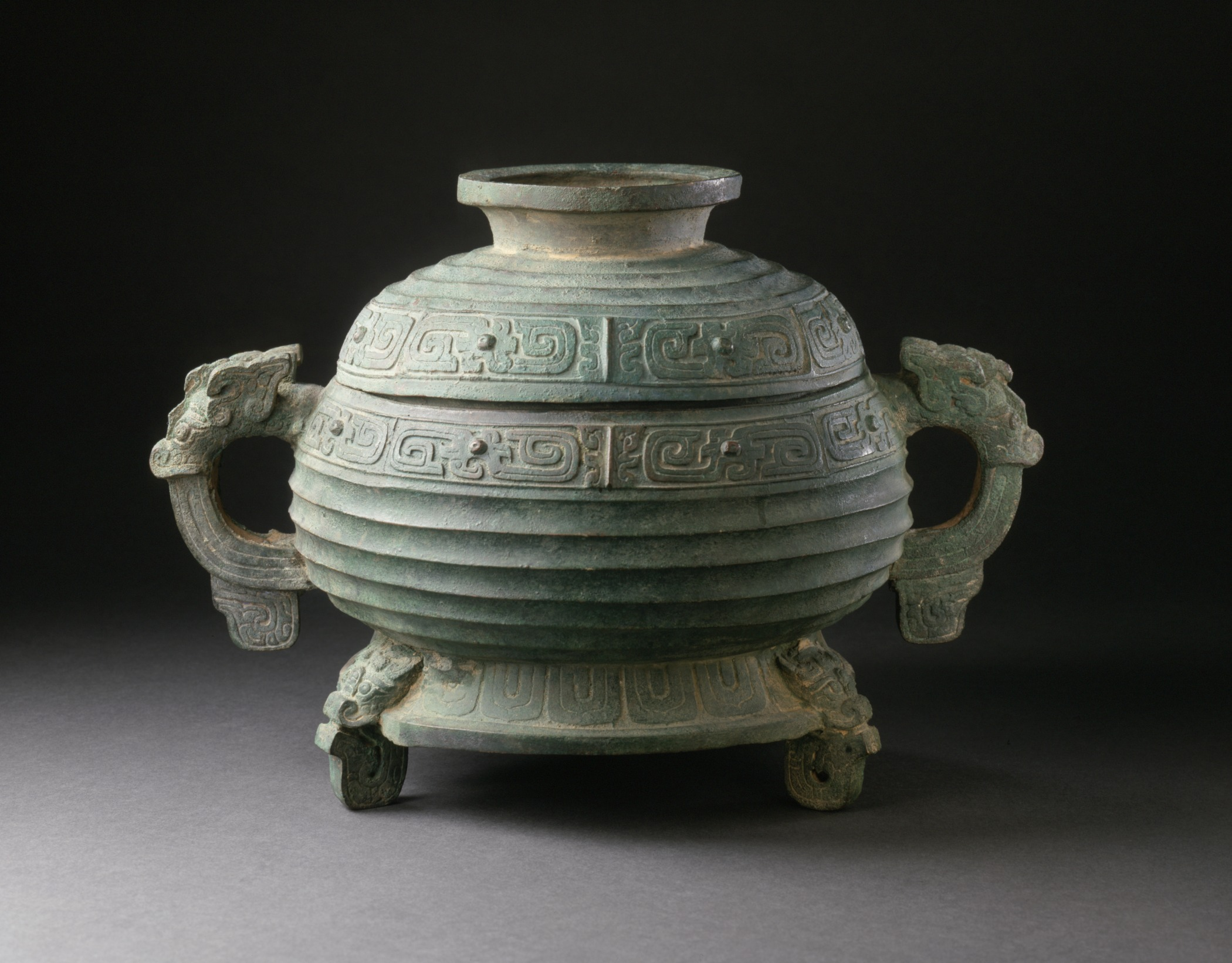 China, probably unearthed at Shaanxi Province, Yongshou County, Middle Western Zhou dynasty, about 950-850 B.C. Furnishings; Serviceware Cast bronze Lid: 3 3/4 x 8 in. (9.5 x 20.3 cm); Body: 7 1/2 x 10 1/2 in. (19.1 x 26.7 cm) The Claire Behar Bequest given in honor of George Kuwayama (M.89.136.12a-b) Chinese Art